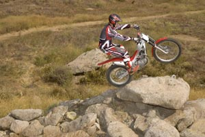 This is a photo of an observed trials rider on a Montesa Cota 4RT. I release the photo into public domain. Don Williams 07:40, 26 September 2006 (UTC)